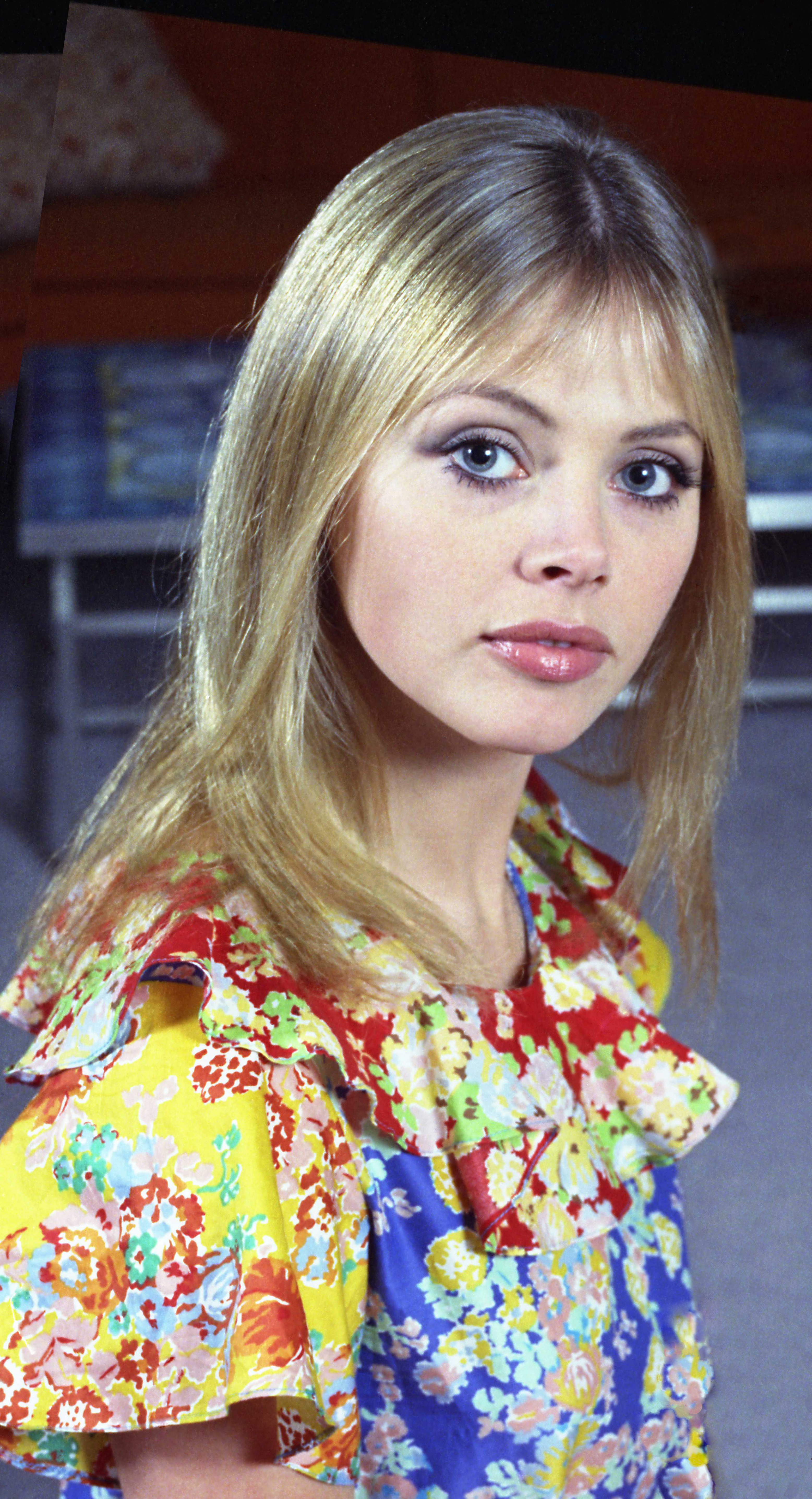 Britt Ekland taken in her apartment London